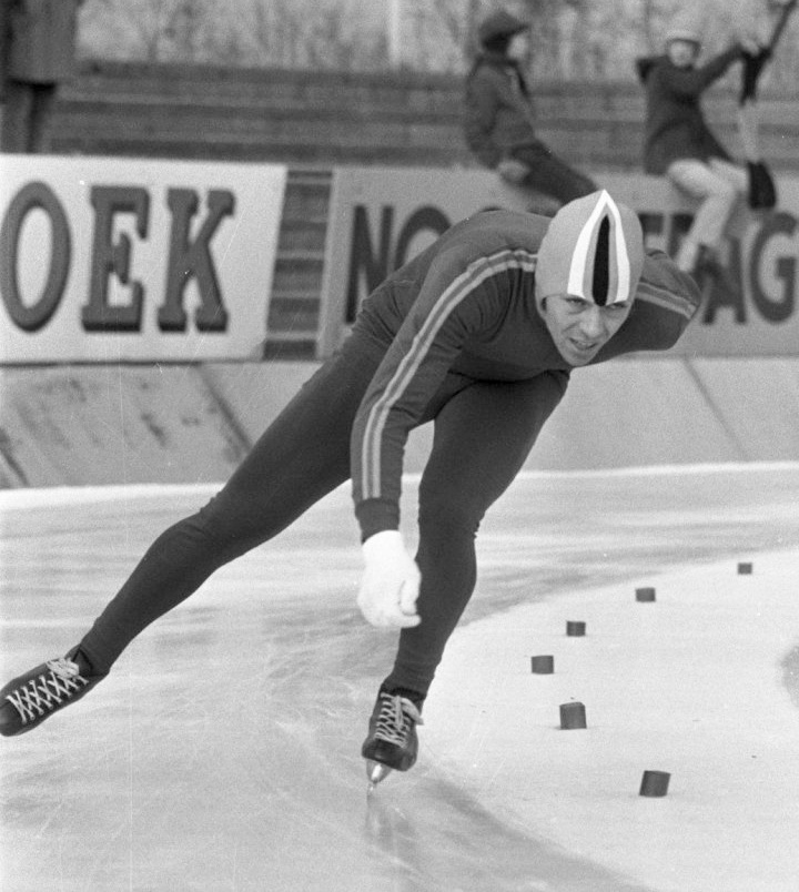 IJsselcup schaatswedstrijden Deventer. Eddy Verheijen